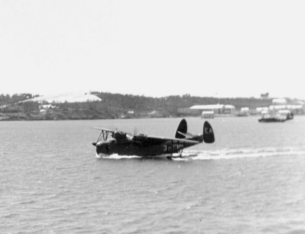 A U.S. Navy Martin PBM-5 from Patrol Squadron VP-49 underway on the water as viewed from a seaplane tender off Bermuda in 1950.